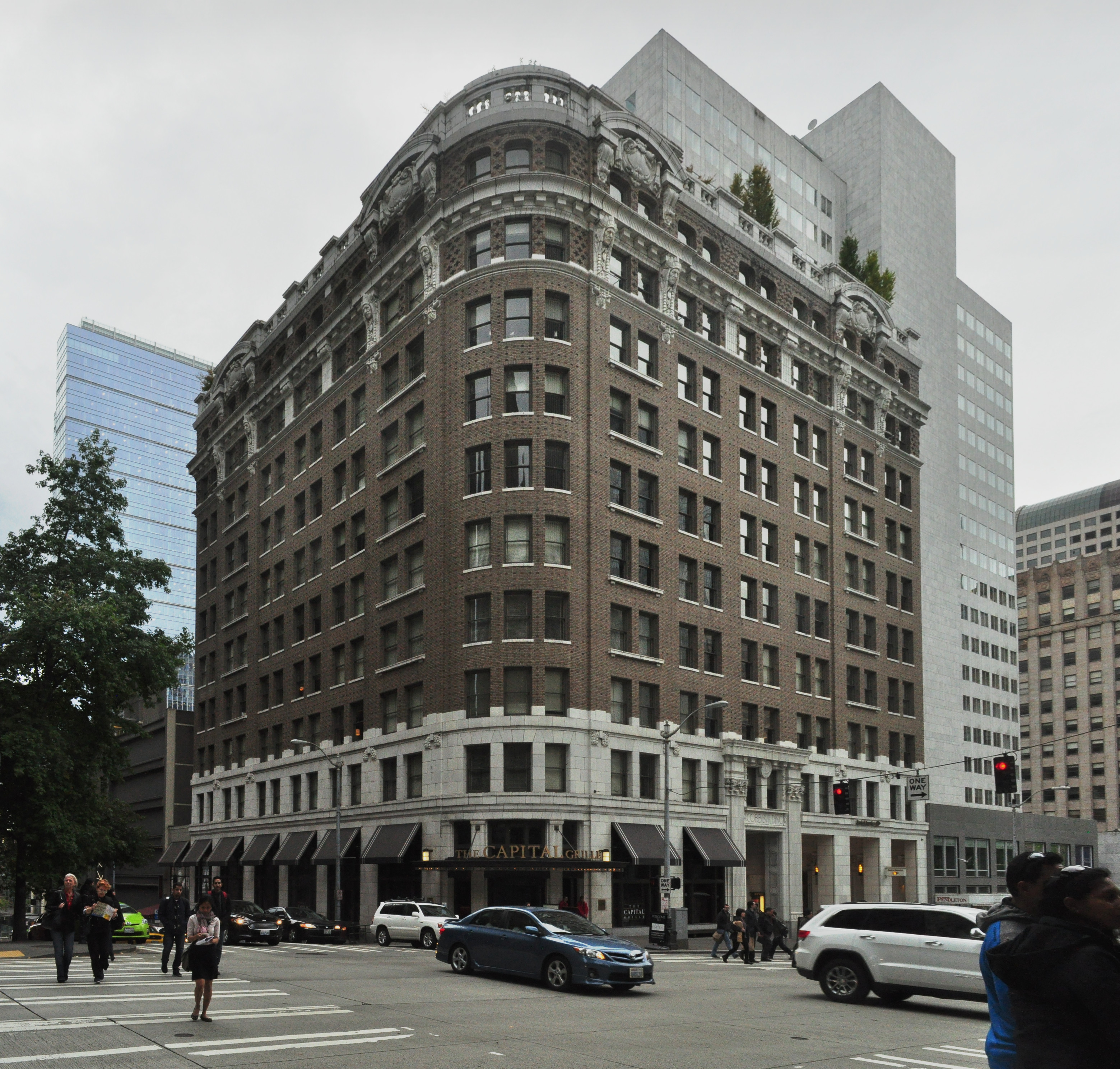 Cobb Building, 1301–1309 Fourth Avenue, Seattle, Washington, USA. The building was purpose-built as a medical-dental building, probably the first such building in the United States. It is the only remaining building whose design conforms to the original Howells & Stokes plan for the Metropolitan Tract, the old downtown site of the University of Washington. It is on the National Register of Historic Places, ID #84003485. [1]. This is actually a composite of two photos (upper and lower portions), created with Hugin. This image was created with Hugin